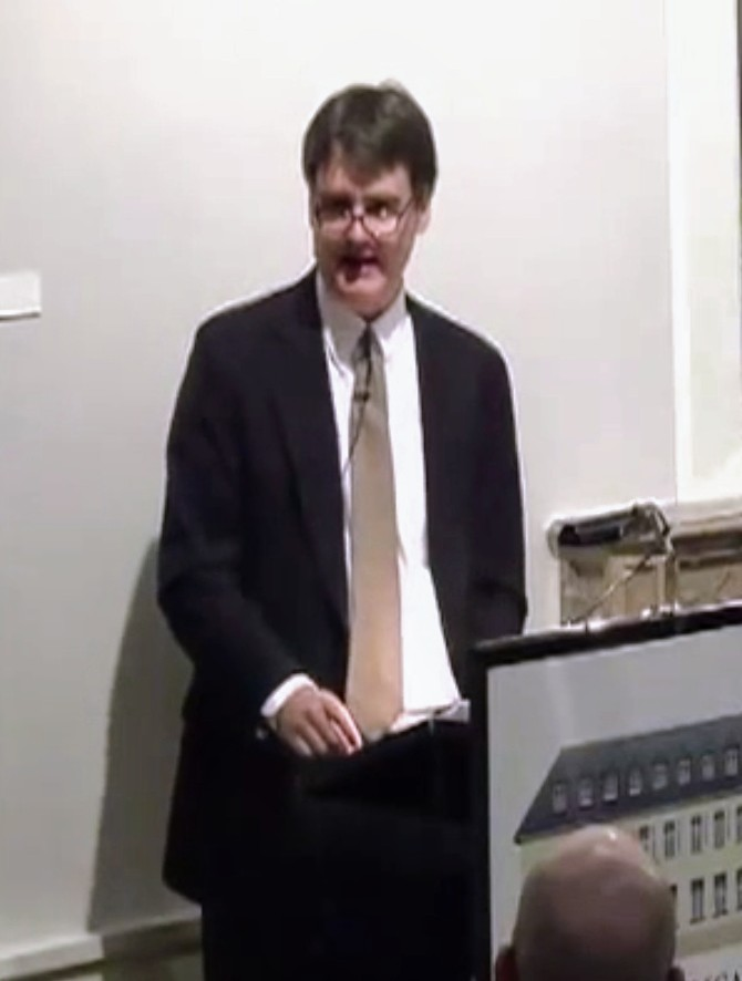 Peter Lindseth's lecture explored the implications of integration moving forward. The lecture was moderated by Ingolf Pernice, the chair of Public, International, and European Law at the Humboldt-Universität zu Berlin.